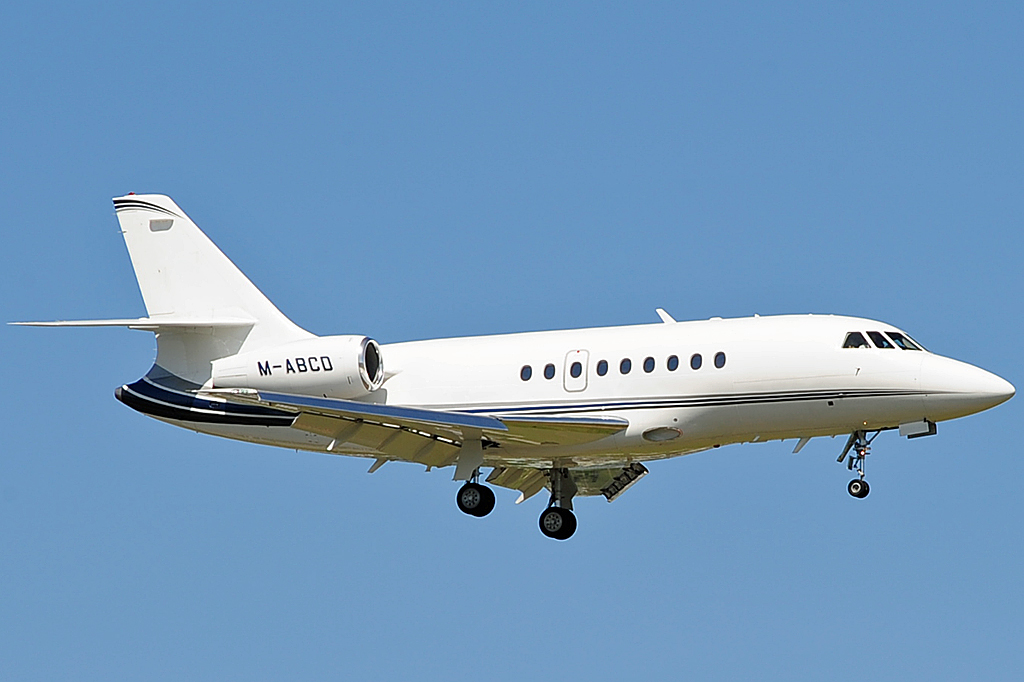 M-ABCD Falcon 2000 at Geneva on May 14, 2012.